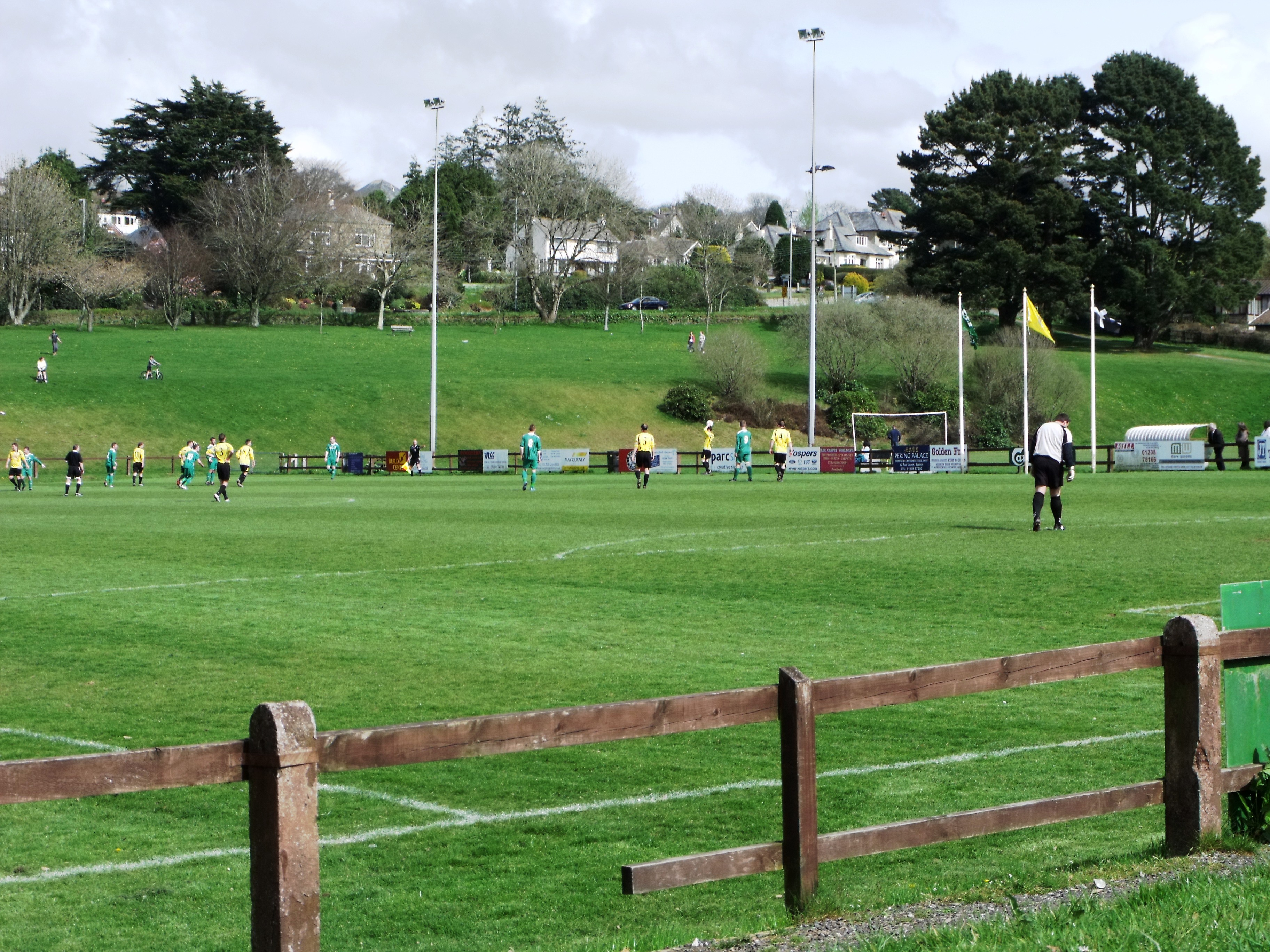 Priory Park, home of Bodmin Town FC. 2.04.11.